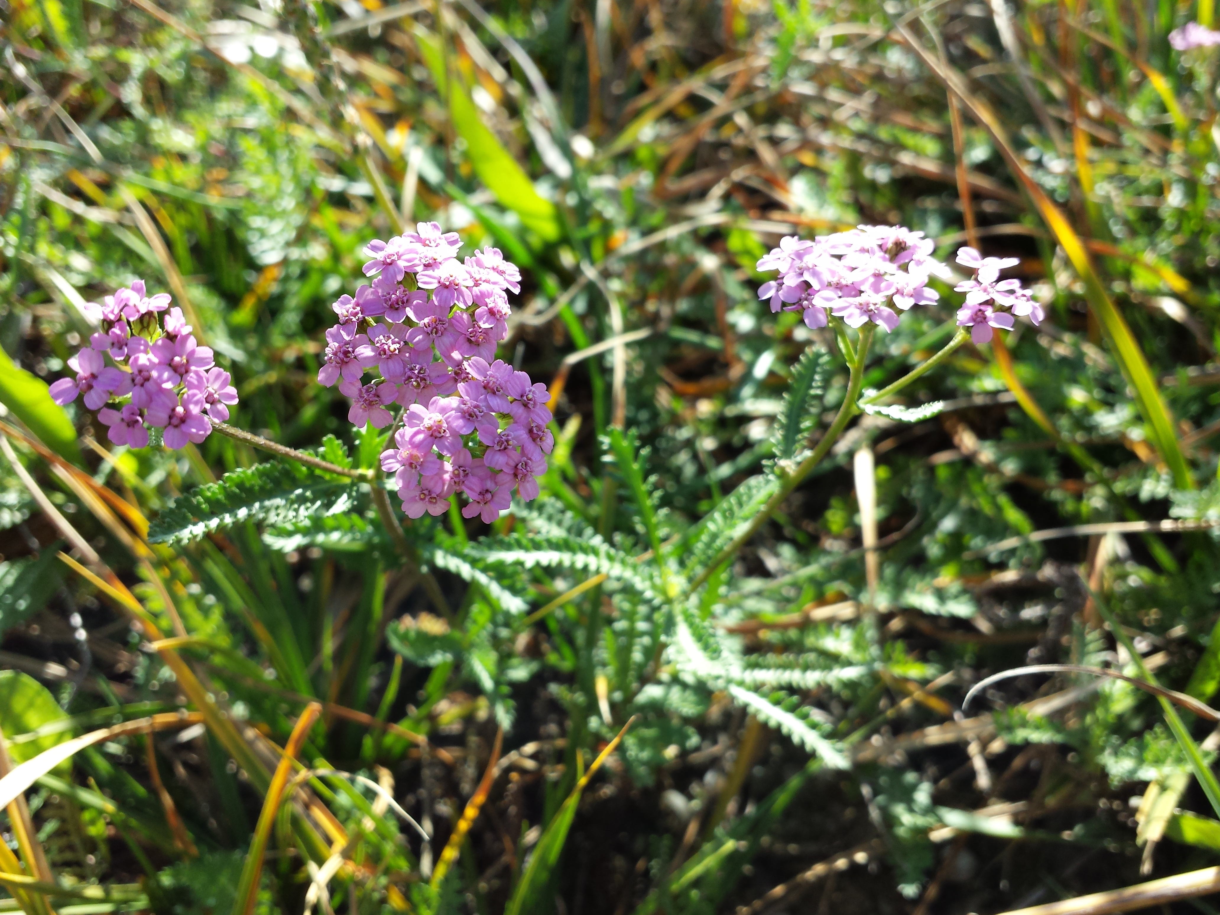 Habitus Taxon: Achillea aspleniifolia (sensu Fischer et al. EfÖLS 2008; det M. A. Fischer 2013-10-12) Location: small salt lake near Podersdorf, district Neusiedl am See, Burgenland, Austria - ca. 120 m a.s.l. Habitat: dried-out small salt lake